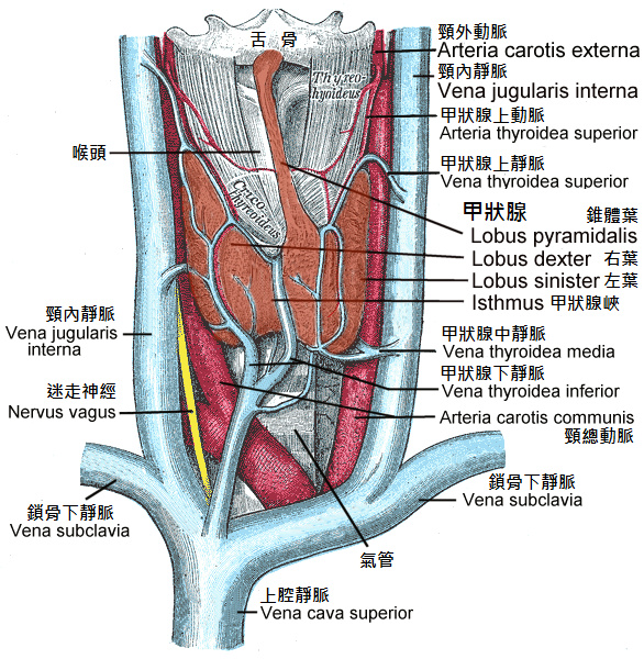 Translated to Chinese from File:Thyroid2.png